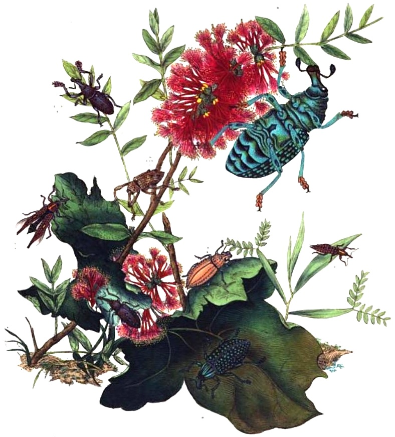 Plate showing various beetles. Image caption: Curculio spectabilis, quadri-tuberculatus, sex-spinosus - Brachycerus nigro-spinosus - Brentus lineatus - Lexus bidenlatus - Rhynchaenus cylindrirostris